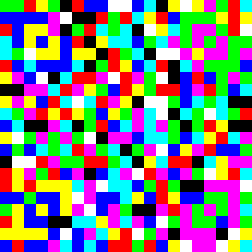 Example for a JAB code. The encoded word is “Wikipedia”, created with Create a JAB Code .